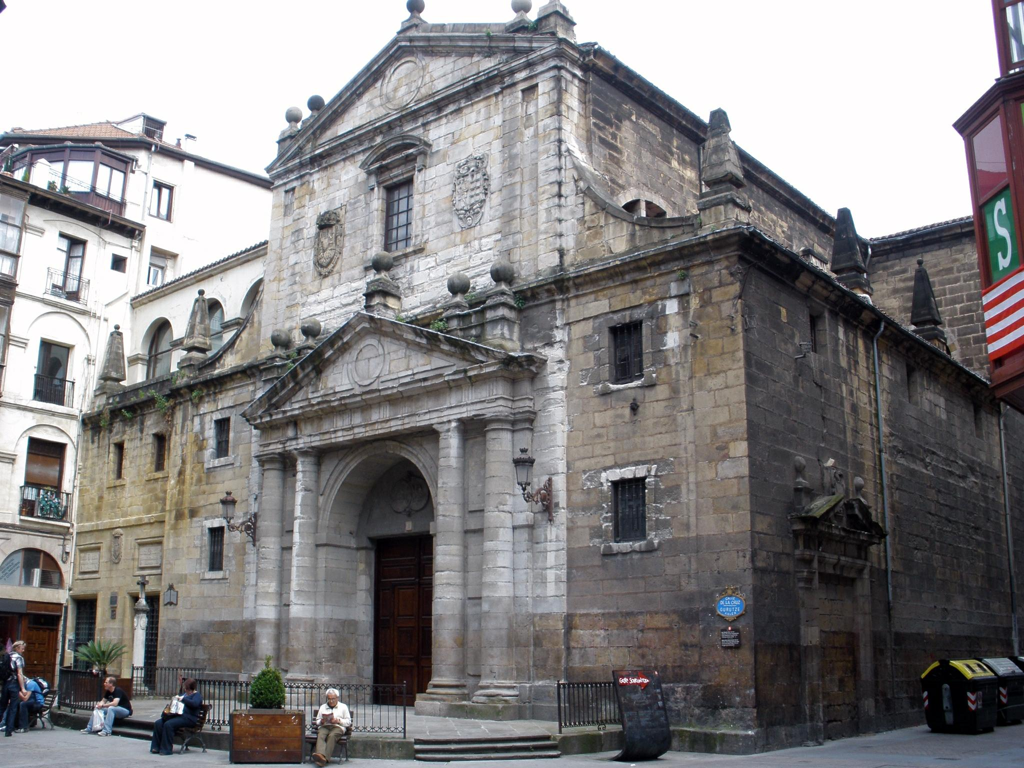 Iglesia de los Santos Juanes, Bilbao. Detrás, Museo Arqueológico, Etnográfico e Histórico Vasco